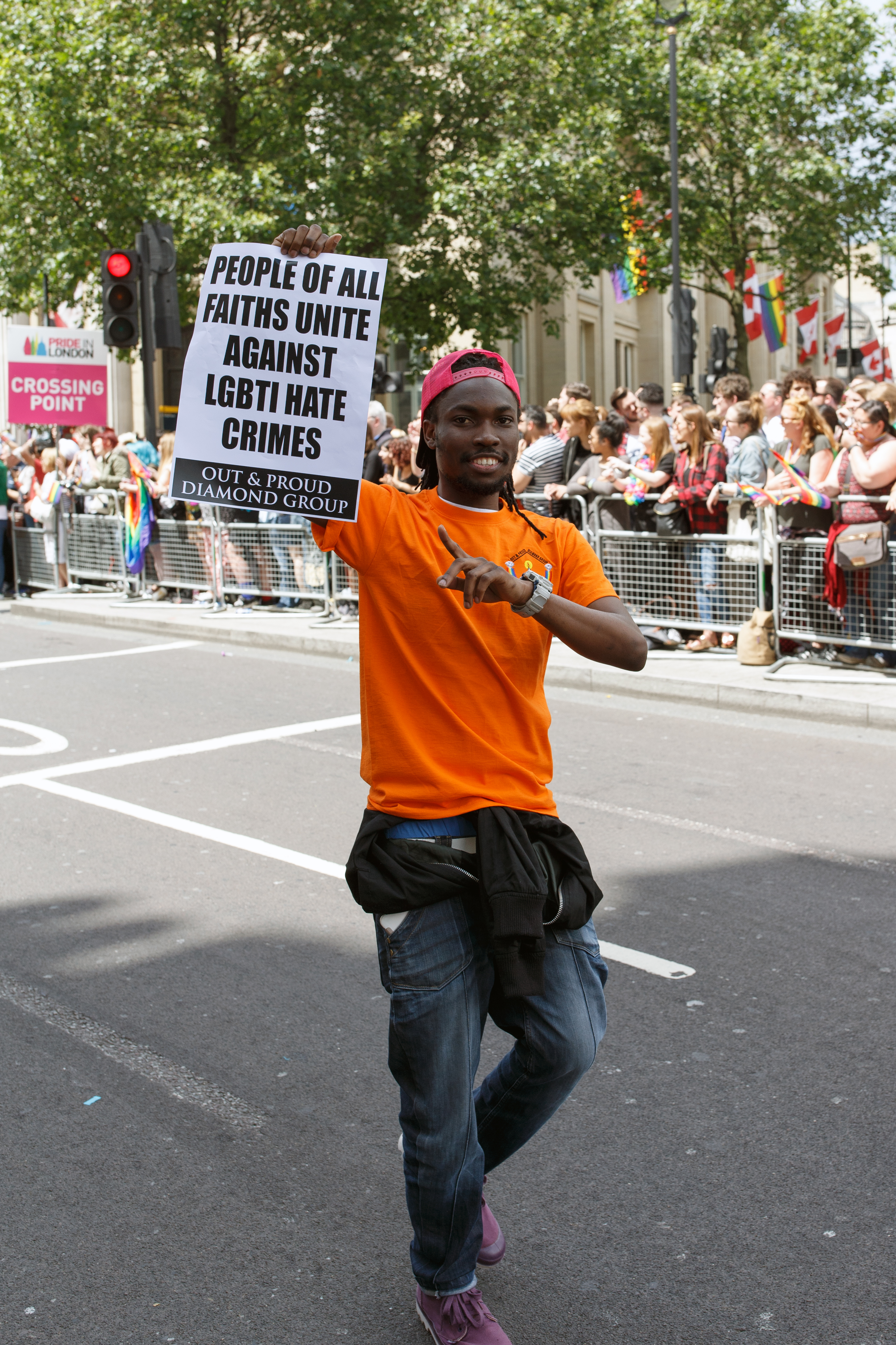 A man at Pride in London 2016 with a placard supporting unity against LGBTI hate crime. He was part of the Out and Proud Diamond Group section of the parade.